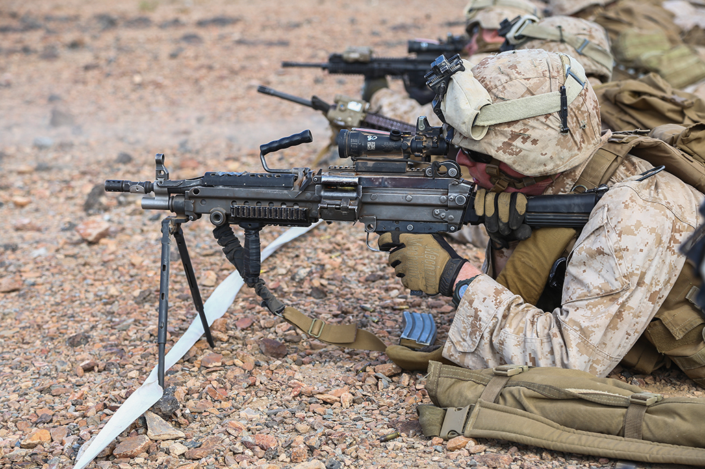 Lance Cpl. David I. Tanenbaum, a rifleman with Golf Company, Battalion Landing Team 2nd Battalion, 1st Marines, 11th Marine Expeditionary Unit (MEU), and Los Angeles native, battle zeros his weapon during sustainment training in D'Arta Plage, Djibouti, Dec. 2. The Makin Island Amphibious Ready Group (ARG) and the embarked 11th MEU provide a versatile, sea-based, expeditionary force that can be tailored to a variety of missions in the U.S. 5th Fleet area of responsibility. (U.S. Marine Corps photo by Cpl. Laura Y. Raga/Released)